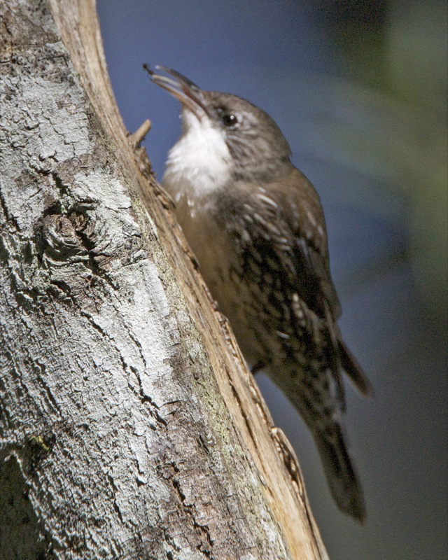 White-throated Treecreeper - male Cormobates leucophaea Nominate race, Cormobates leucophaea leucophaea Great Otway National Park, Victoria, Australia Habitat: temperate rain forest 21st. September 2009 Distribution